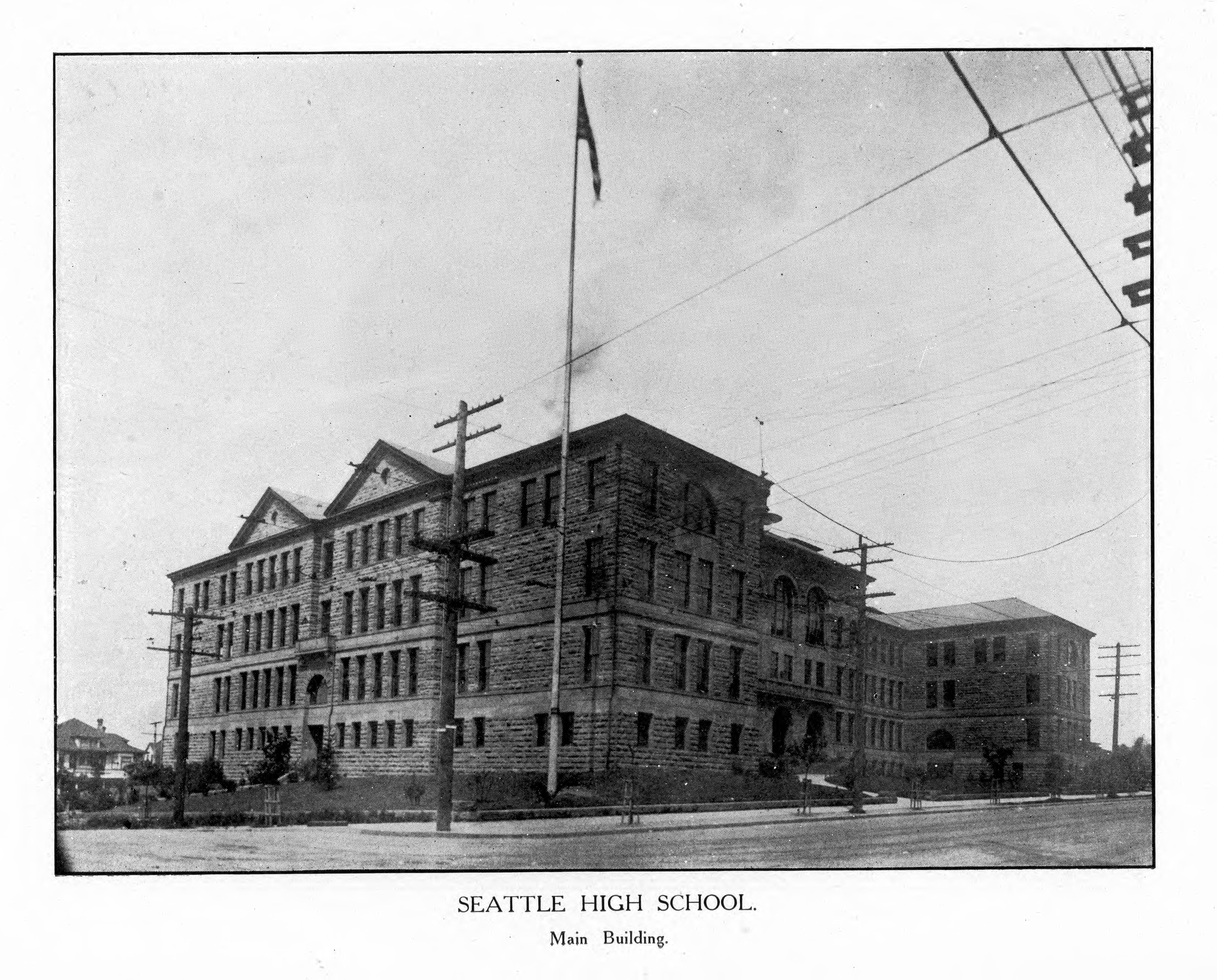 From the materials for the Alaska-Yukon-Pacific Exposition of 1909, held in Seattle. "Seattle High School." Later Broadway High School; part of this building survives as the Broadway Performance Hall of Seattle Central Community College.